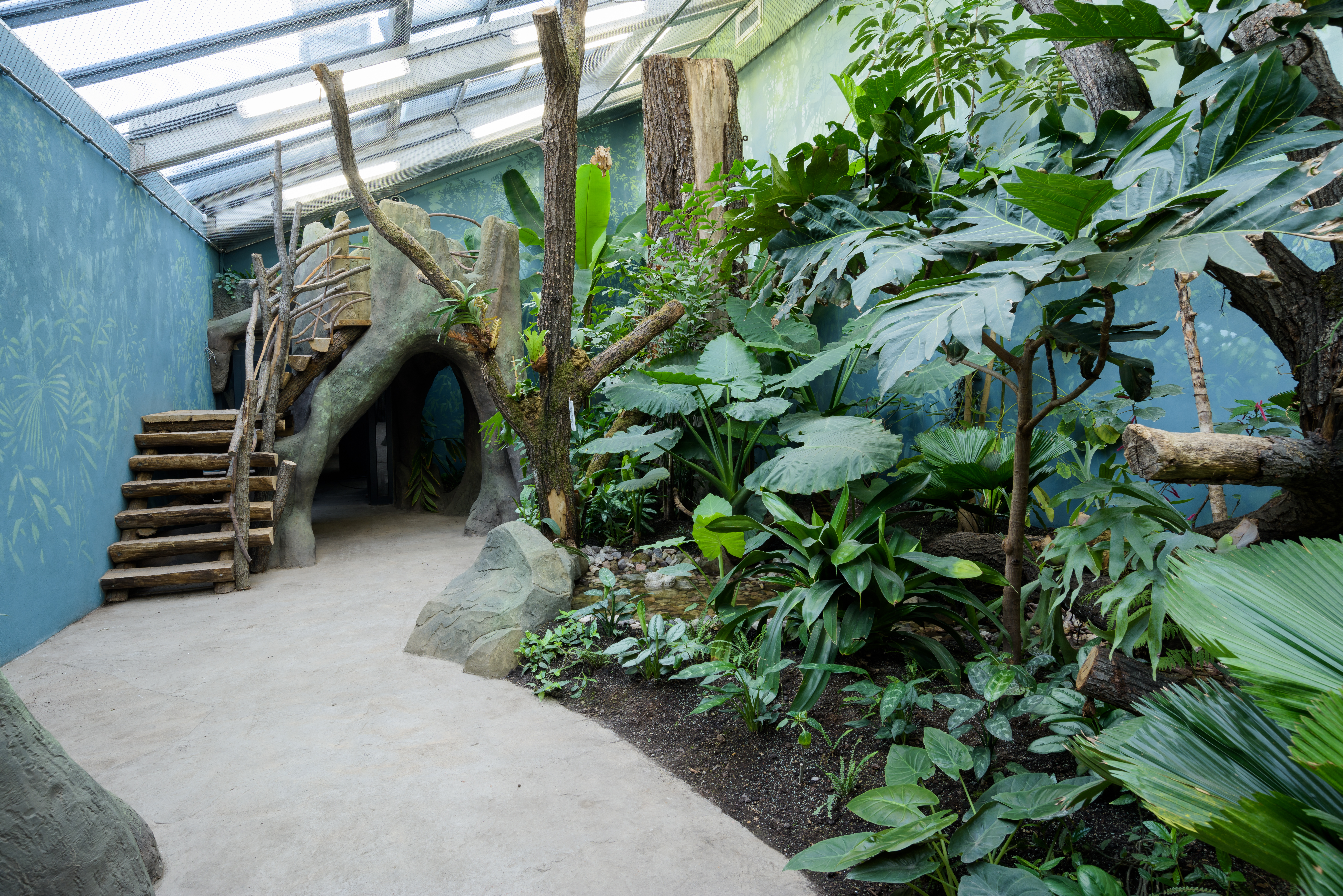 Interieur of Rakos' Houseyellow-billed amazon, shortly after plants, January 2018